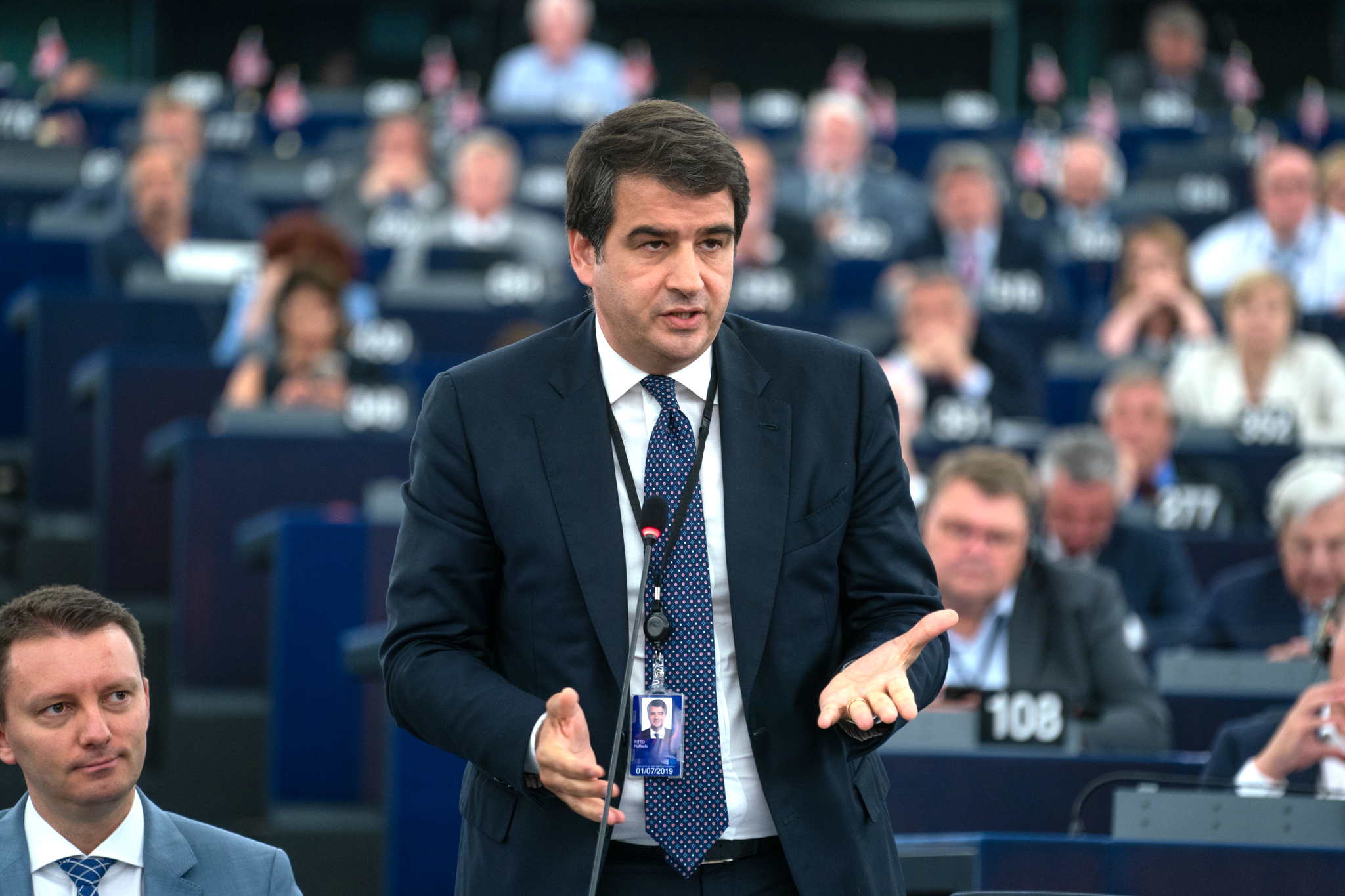 This photo is free to use under Creative Commons license CC-BY-4.0 and must be credited: "CC-BY-4.0: © European Union 2019 – Source: EP". No model release form if applicable. For bigger HR files please contact: webcom-flickr(AT)